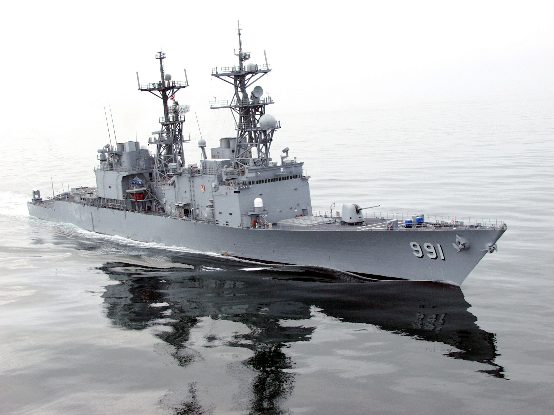 Eastern Pacific (Jun. 25, 2002) -- The U.S. Navy destroyer USS Fife (DD 991) is the U.S. Task Group flagship for the Pacific Phase of the annual UNITAS exercise conducted between June 27 and July 11, 2002, with naval forces from five nations off the coast of Chile. The ships five-month deployment to the Eastern Pacific Ocean for Counter-Drug Operations and the UNITAS exercise is the final deployment for the Spruance-class destroyer, which is scheduled to be de-commissioned in February 2003. U.S. Navy Photo by Lieutenant Corey Barker. (RELEASED)